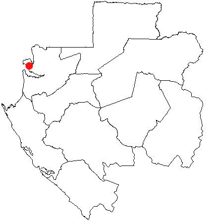 Libreville, Gabon Location Map, created with the GIMP. Kaart van Mouila, provinciehoofdstad van Ngounié in Gabon.